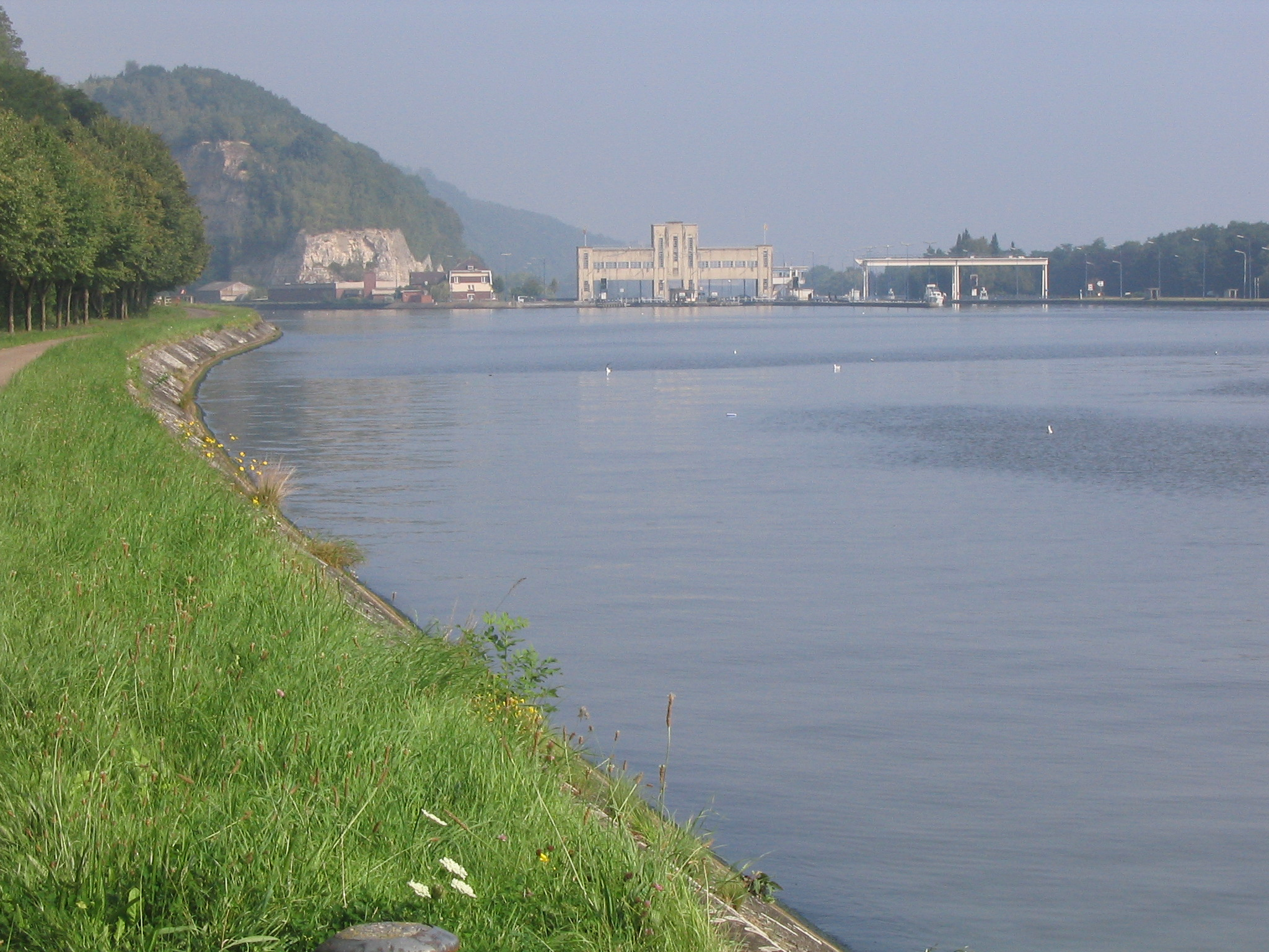 Albert Canal [1] (filled with Meuse river water) near Lanaye [2], where it's connected with the Meuse river through the 1,9 km long Lanaye canal. On this image the Albert Canal bows westwards (leftwards, in the Antwerp direction) trough the plateau (upper left), right before its "Mount Saint Peter" [3], whereas the locks (upper centre and right) give entrance to the Lanaye canal, connecting with Meuse river 1,9 km more northernly.